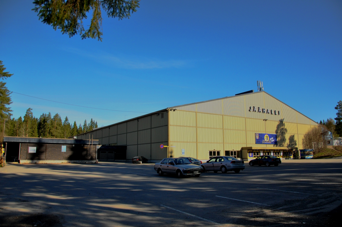 Kalevankangas Ice Hall in Mikkeli, Finland